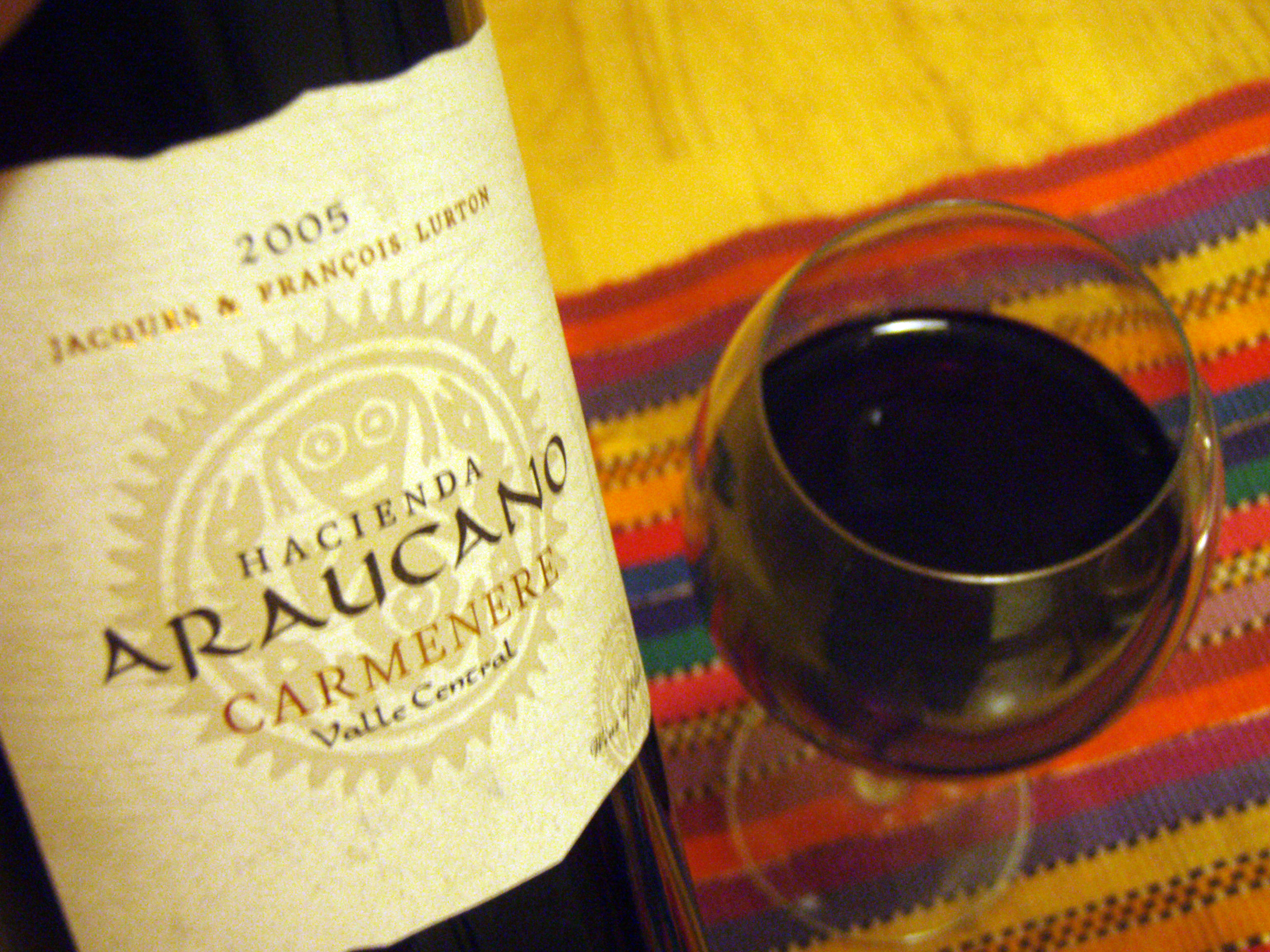 Bottle and glass of Carmenere wine from the Valle Central region of Chile from Hacienda Araucano